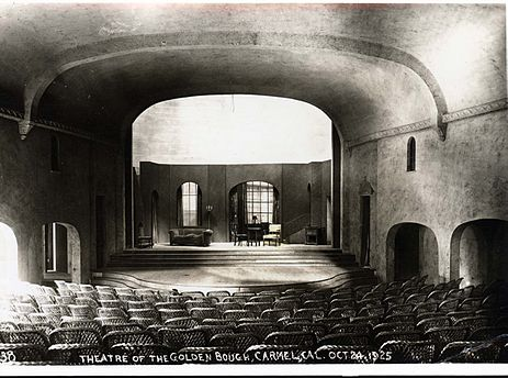 Interior view of the historic Golden Bough Playhouse on Ocean Ave. in Carmel-by-the-Sea, California